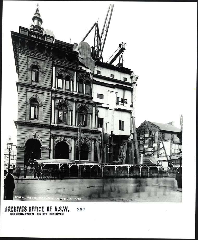 General Post Office - extensions, view from George Street, Sydney Dated: 27/04/1898 Digital ID: 4481_a026_000317 Rights: We'd love to hear from you if you use our photos. Many other photos in our collection are available to view and browse on our website using Photo Investigator.